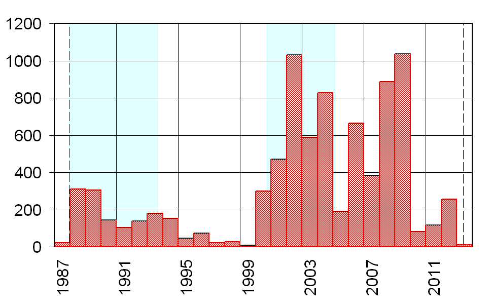 Palestinian casualties per year from Dec. 9, 1987 to May 31, 2013. Source:B'Tselem Statistics. Blue areas: First and Second Intifadas